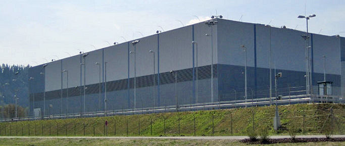 Fuel assembly container storage facility on the area of the Isar nuclear power plant / Brennelemente-Zwischenlager auf dem Gelände des KKI